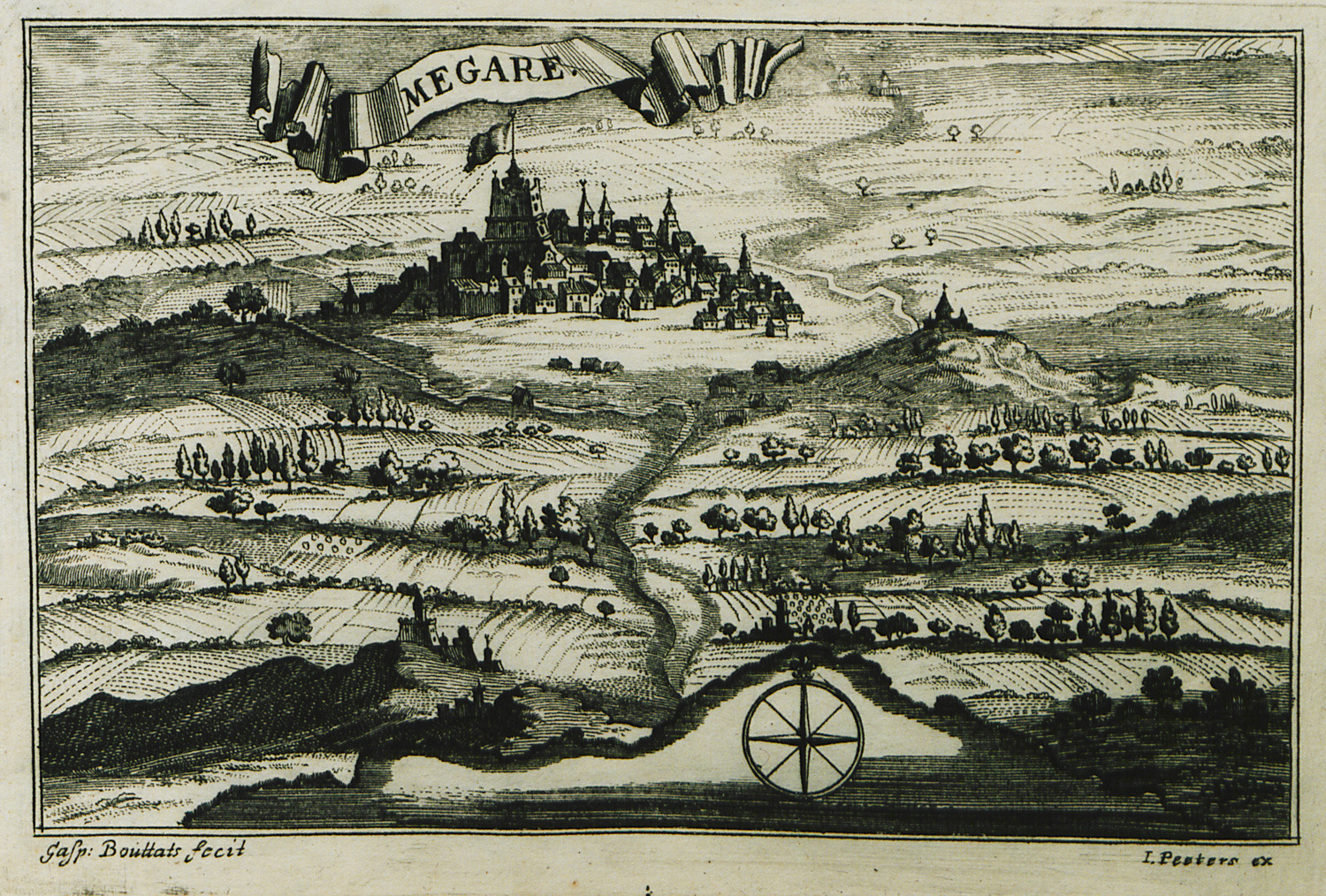 Jacob Peeters. Description des principales villes, havres et isles du golfe de Venise du coté oriental. Comme aussi des villes et forteresses de la Moree, et quelques places de la Grèce, Antwerp, Sur le marché des vieux Souliers, 1690.